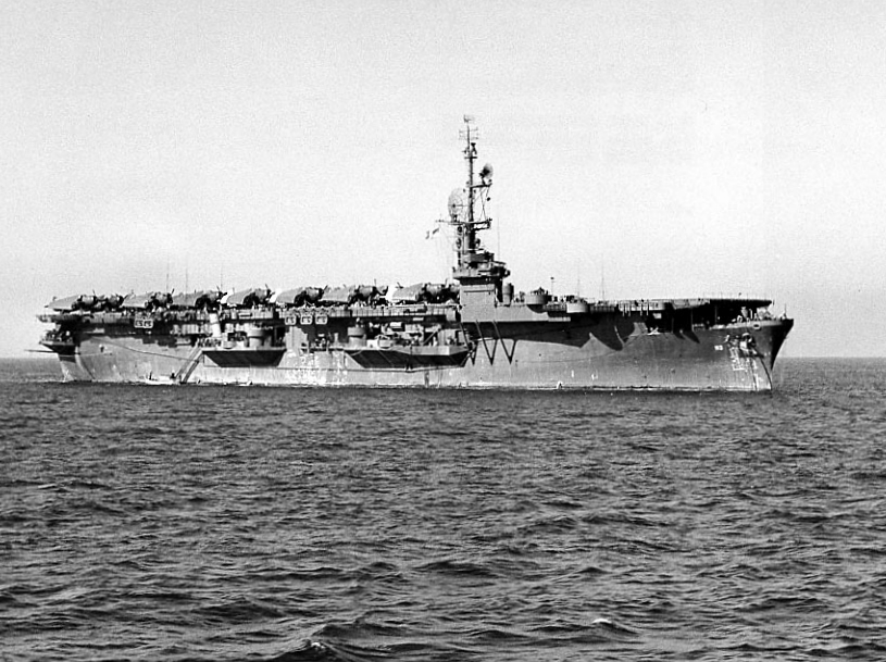 The U.S. Navy escort carrier USS Puget Sound (CVE-113) at anchor in Tokyo Bay, Japan, October 1945.